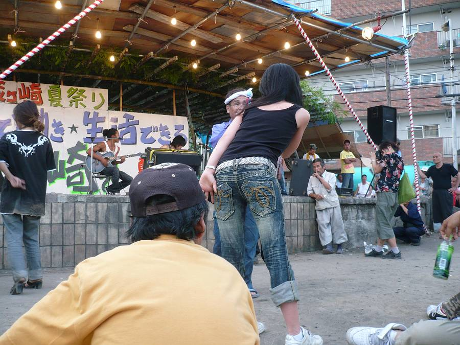 2008 Kamagasaki Summer Festival